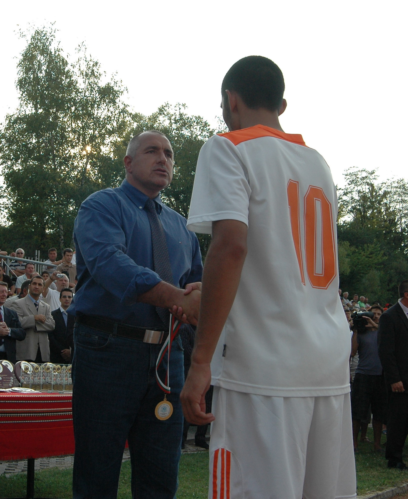 Atanas Dimitrov